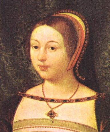 Margaret Tudor, daughter of Henry VII of England, sister of Henry VIII, wife of James IV of Scotland and mother of James V.